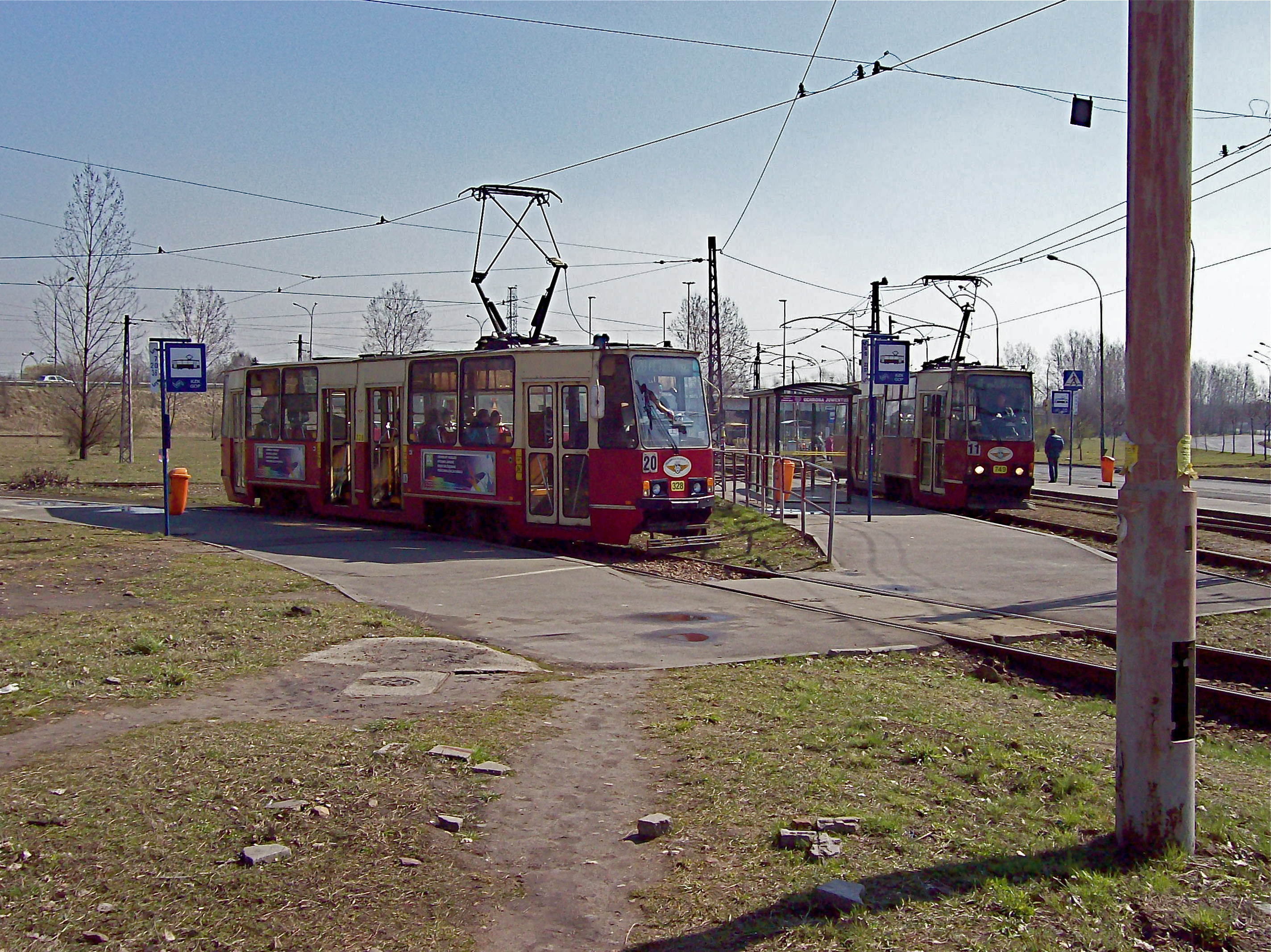 Trams in Katowice, Poland